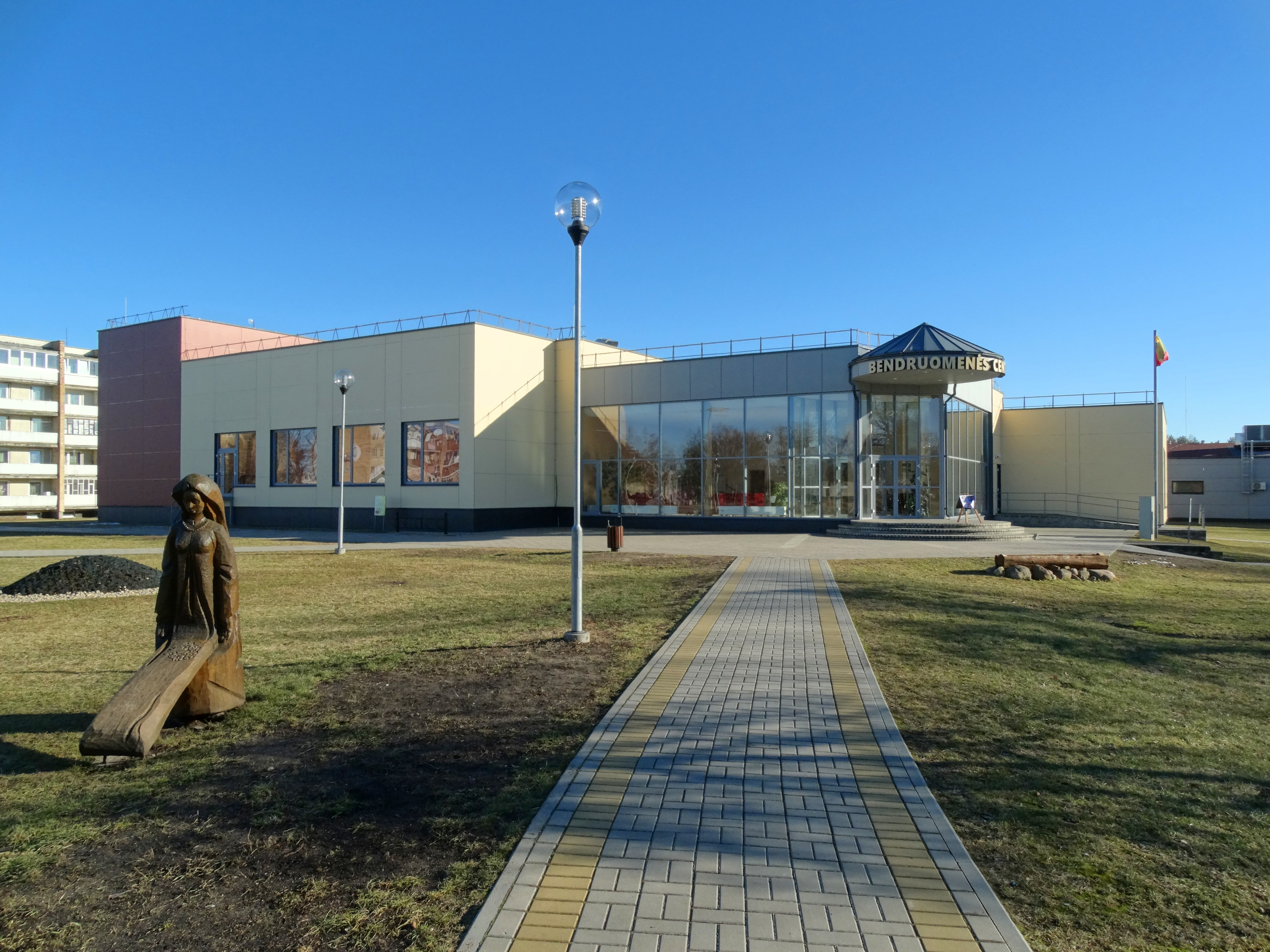 Community House, Viečiūnai, Druskininkai Municipality, Lithuania